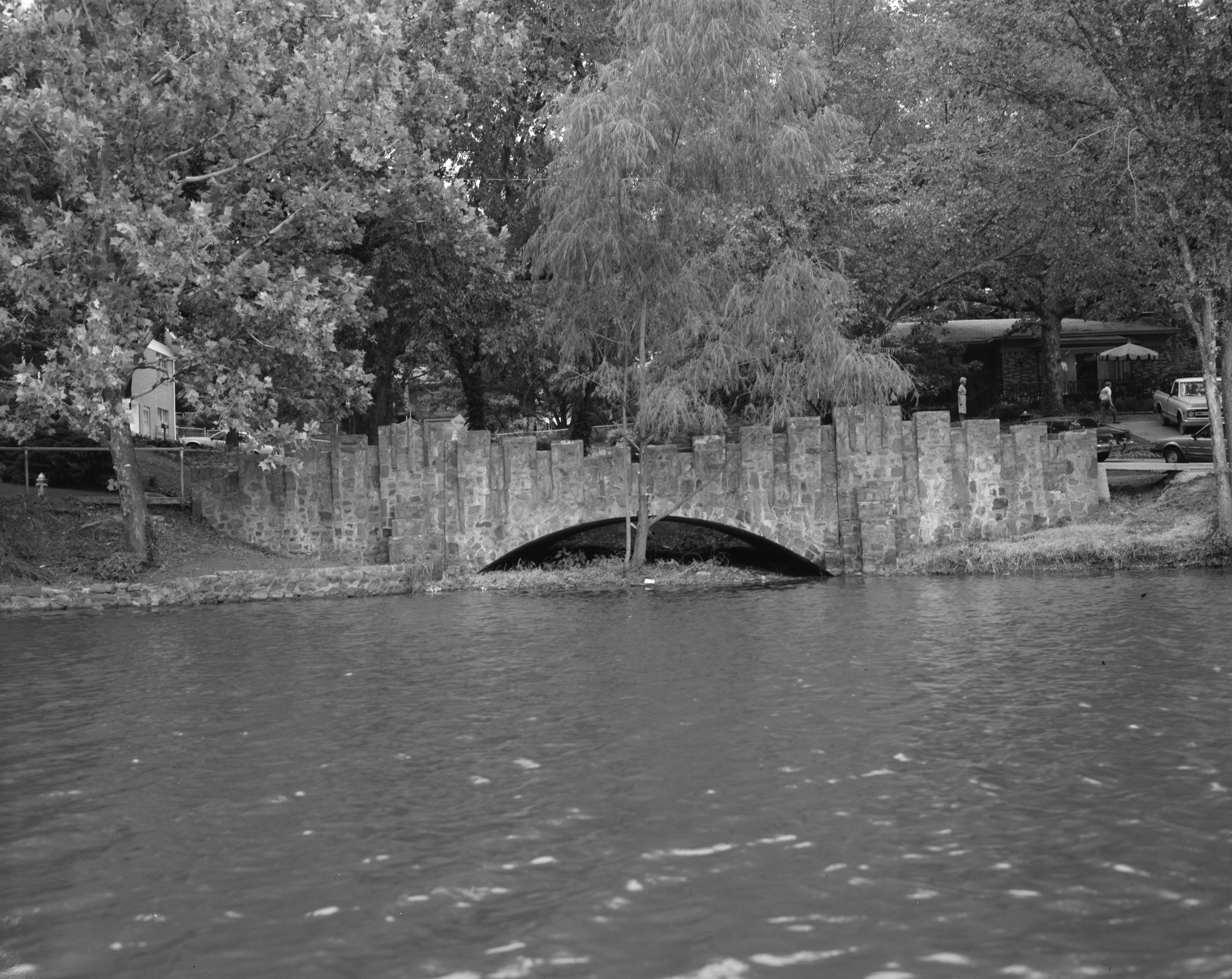 Western side of the Edgemere Street Bridge, which carries Edgemere Street over Lake No. 3 in North Little Rock, Arkansas, United States. Built in 1935, this closed spandrel deck arch bridge is listed on the National Register of Historic Places.